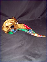 Zanni – Traditional Commedia dell’Arte mask. Picture from Magic of Venezia -Venetian masks and costumes online store.